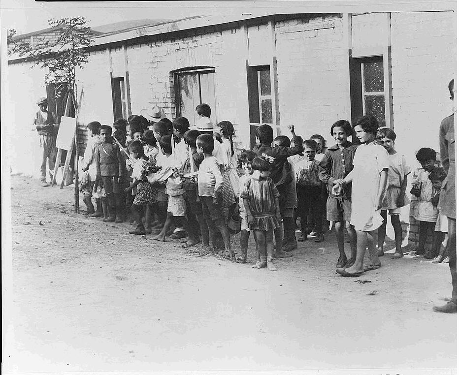 Greek and Armenian refugee children in barracks, near Athens. Greece received 1,000,000 refugees.